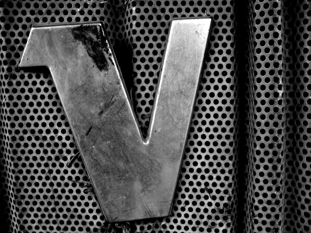 The typical letter "V" of the Valmet logo, seen at an old Valmet tractor in Brazil